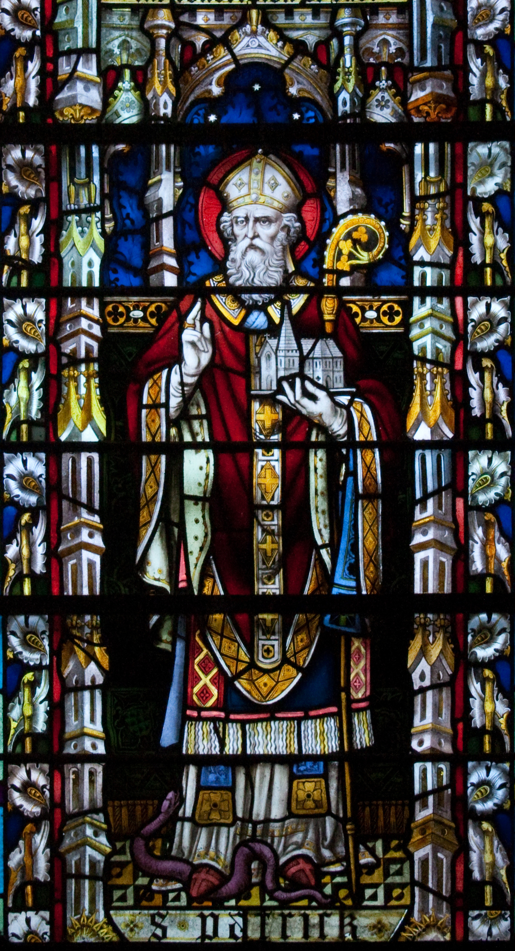 Carlow, County Carlow, Ireland Main feature of the center stained glass window in the north transept of Carlow Cathedral, showing St Patrick. Created by Franz Mayer & Co. in the 19th century. Franz Borgias Mayer (1848–1926) Alternative names Mayer, FranzDescriptionGerman stained-glass artistDate of birth/death 1848 1926 Work location Munich Authority control : Q21000395 VIAF: 80993958 GND: 136691900 creator QS:P170,Q21000395